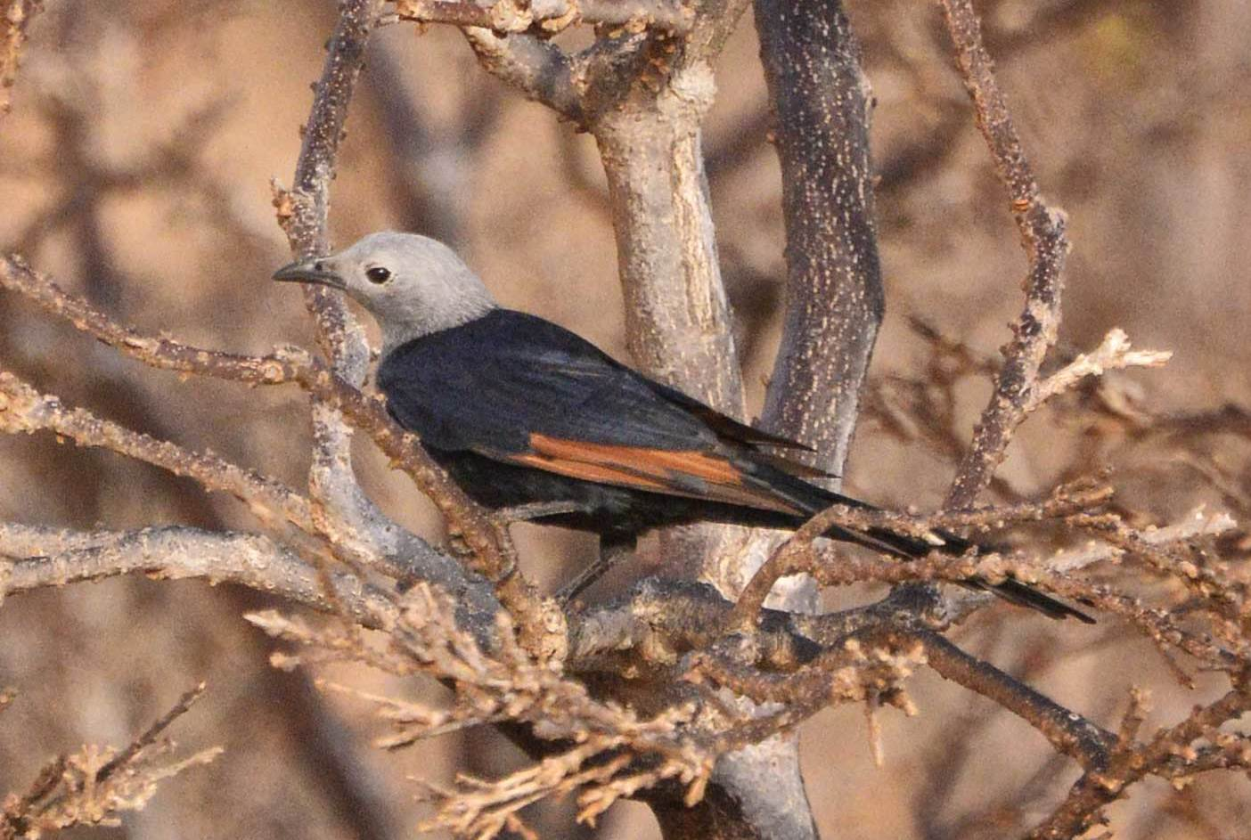 Socotra Island, Yemen